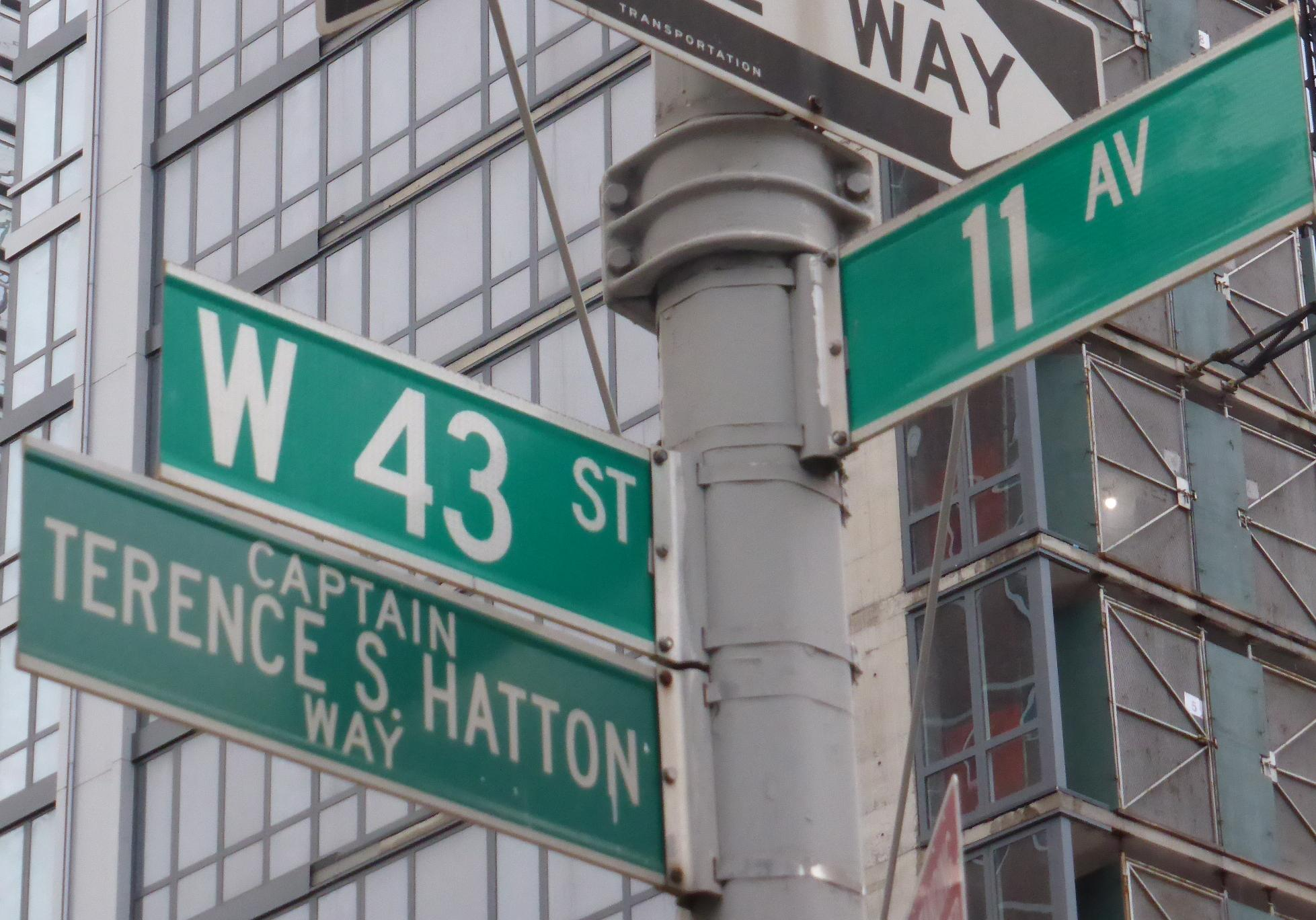 Street sign in Hell's Kitchen, Manhattan, to commemorate Captain Terence S. Hatton, New York City Fire Department Rescue Company 1, who perished in the September 11, 2001, attack.